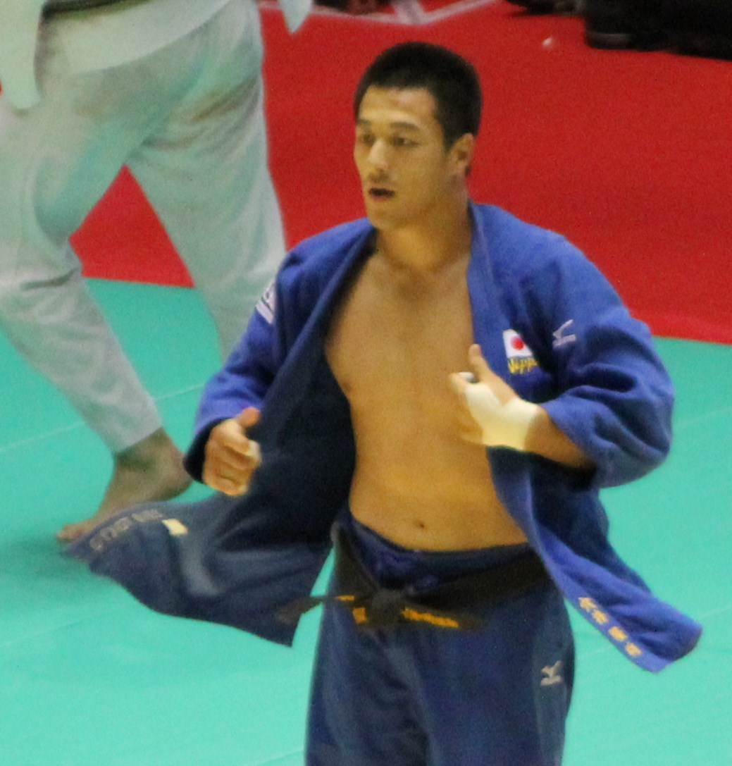 Japanese judoka Takamasa Anai during the 2010 World Judo Championships held in Tokyo, Japan